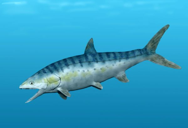 Caturus